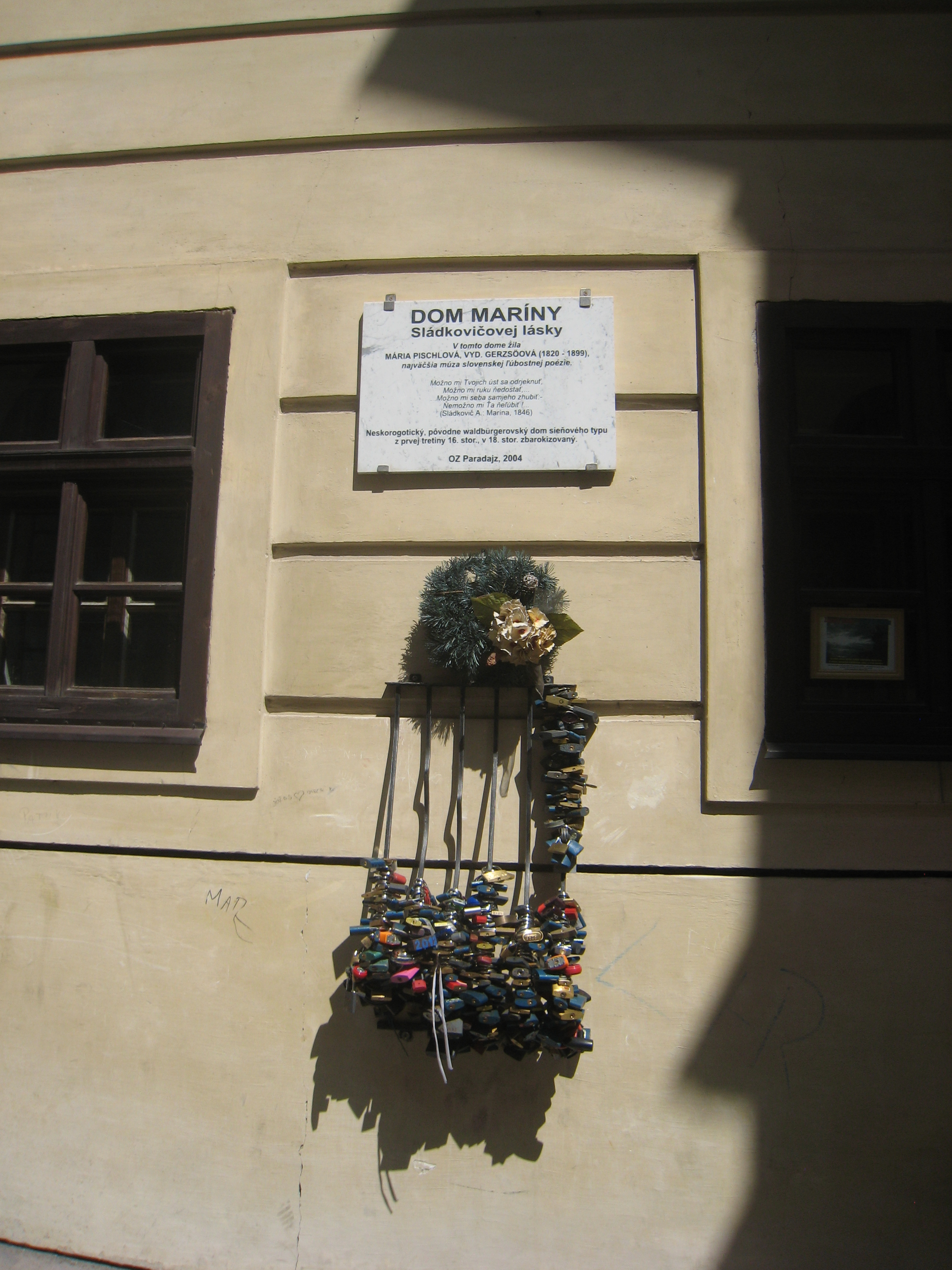 The house of Marina in the centre of Banska Stiavnica (detail).